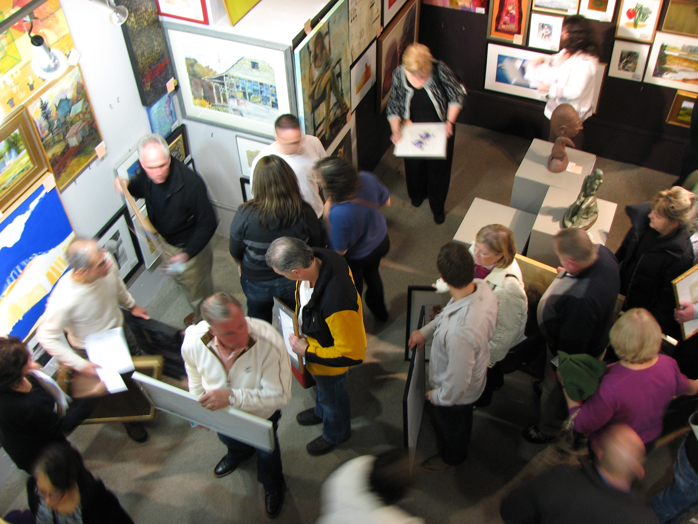 The Art League's annual Patrons' Show sells hundreds of works donated by artists.